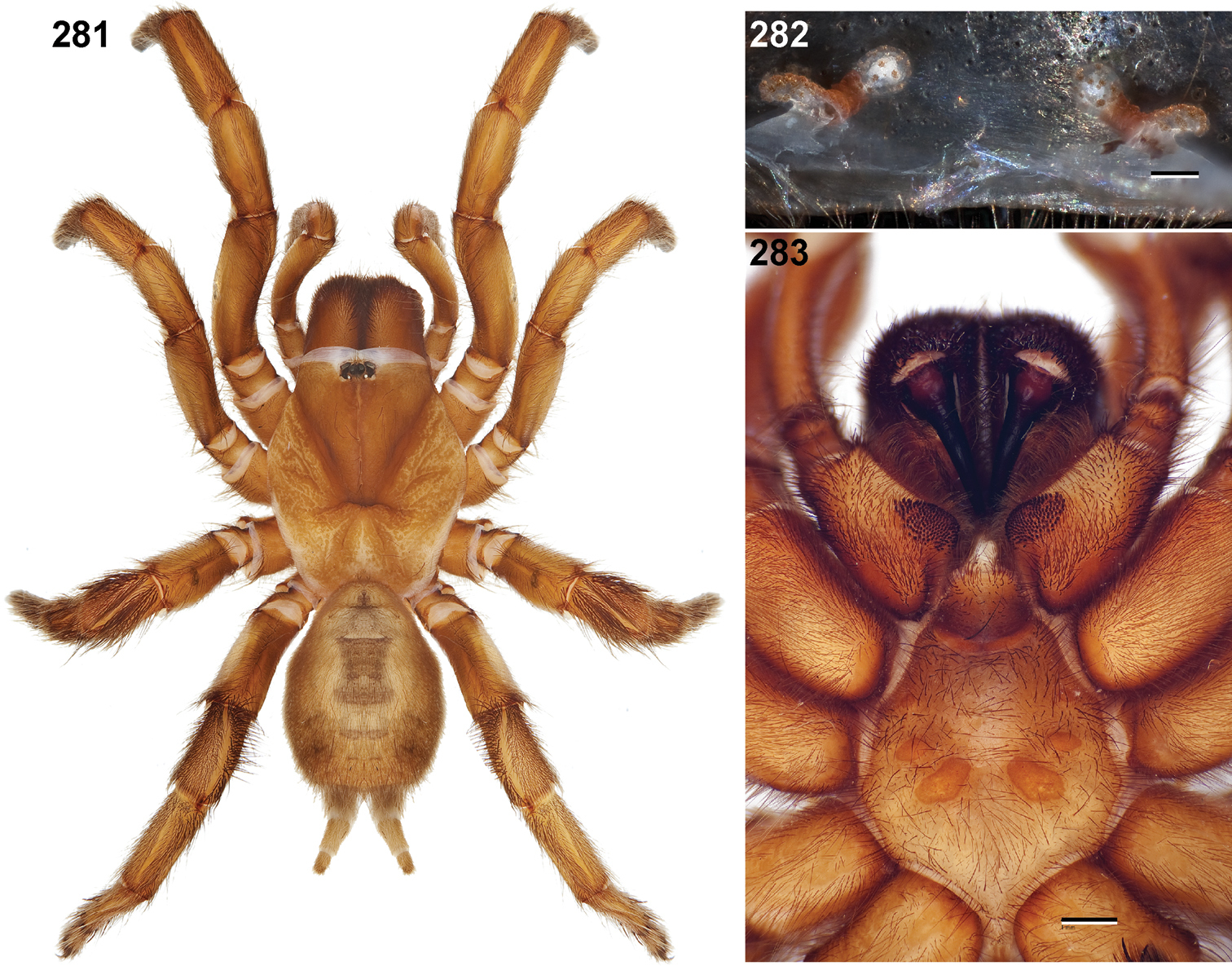 Aptostichus simus female specimens. 281 habitus, from San Diego County (AP067) 282 cleared spermathecae (MY3447), from San Luis Obispo County [806538]; scale bar = 0.1mm 283 cephalothorax, ventral aspect, from San Diego County